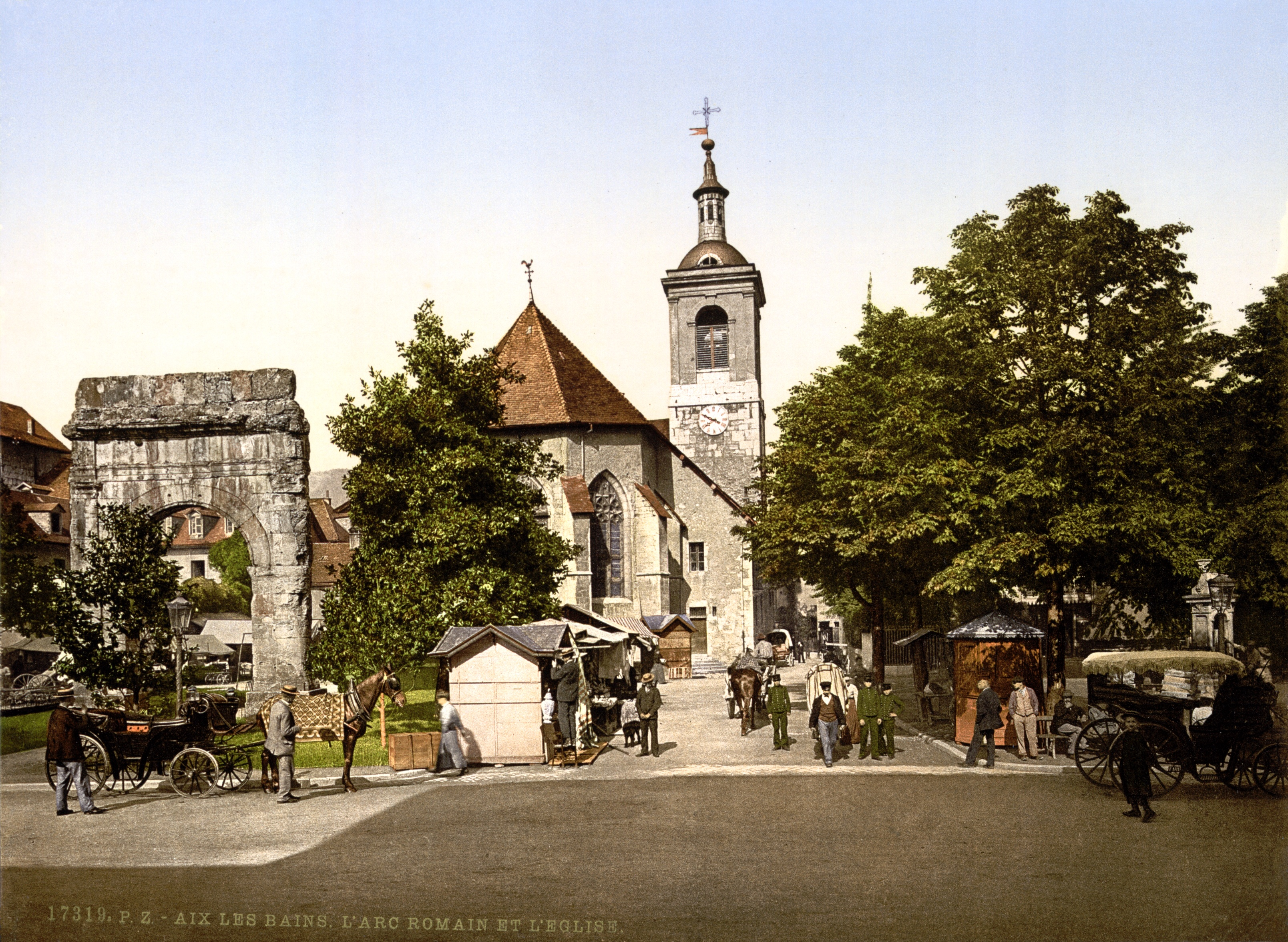 The roman arch and the church, Aix-les-Bains, France.